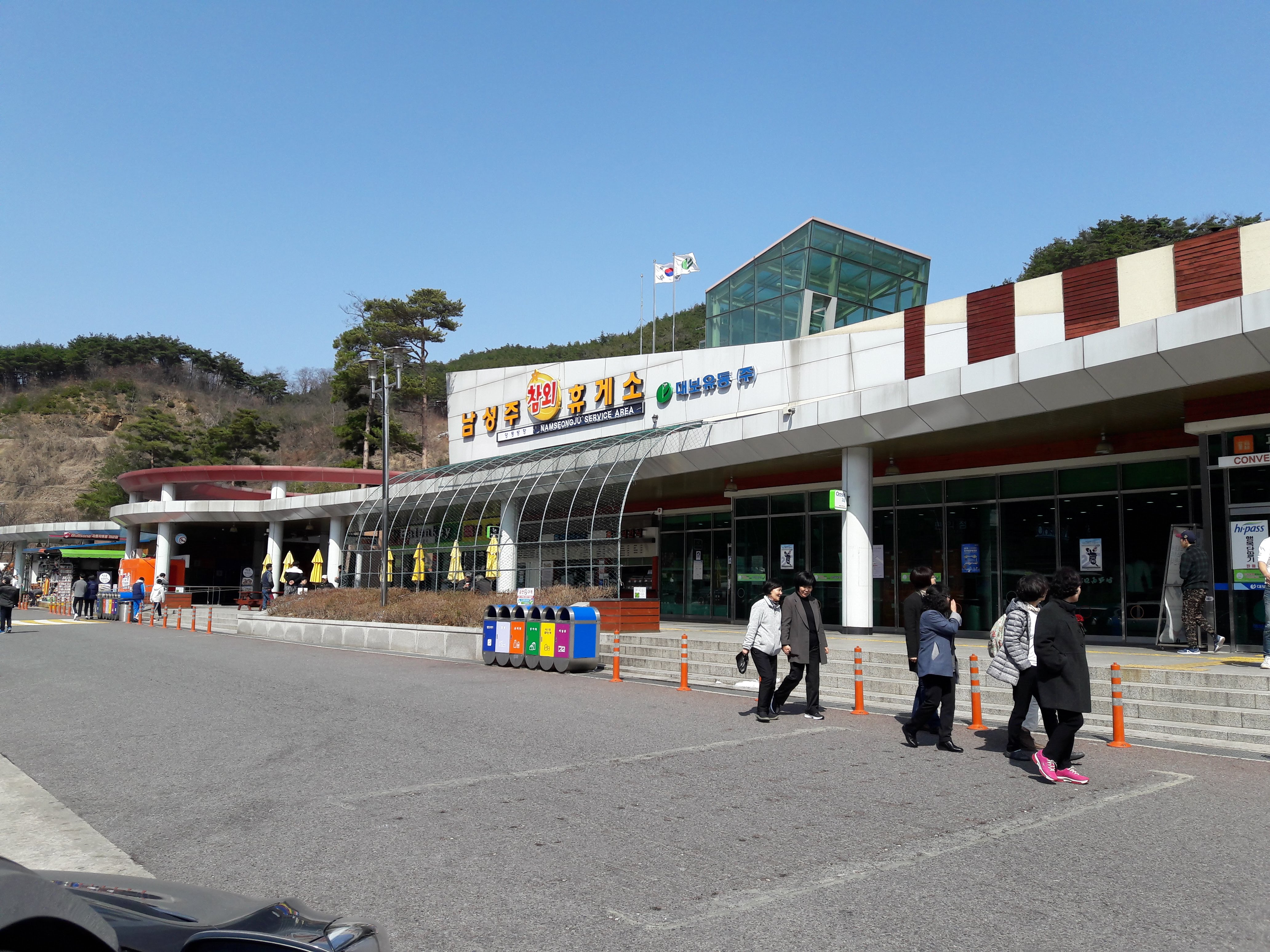 Namseongju Chamoe Service Area